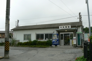 Oyachi Station